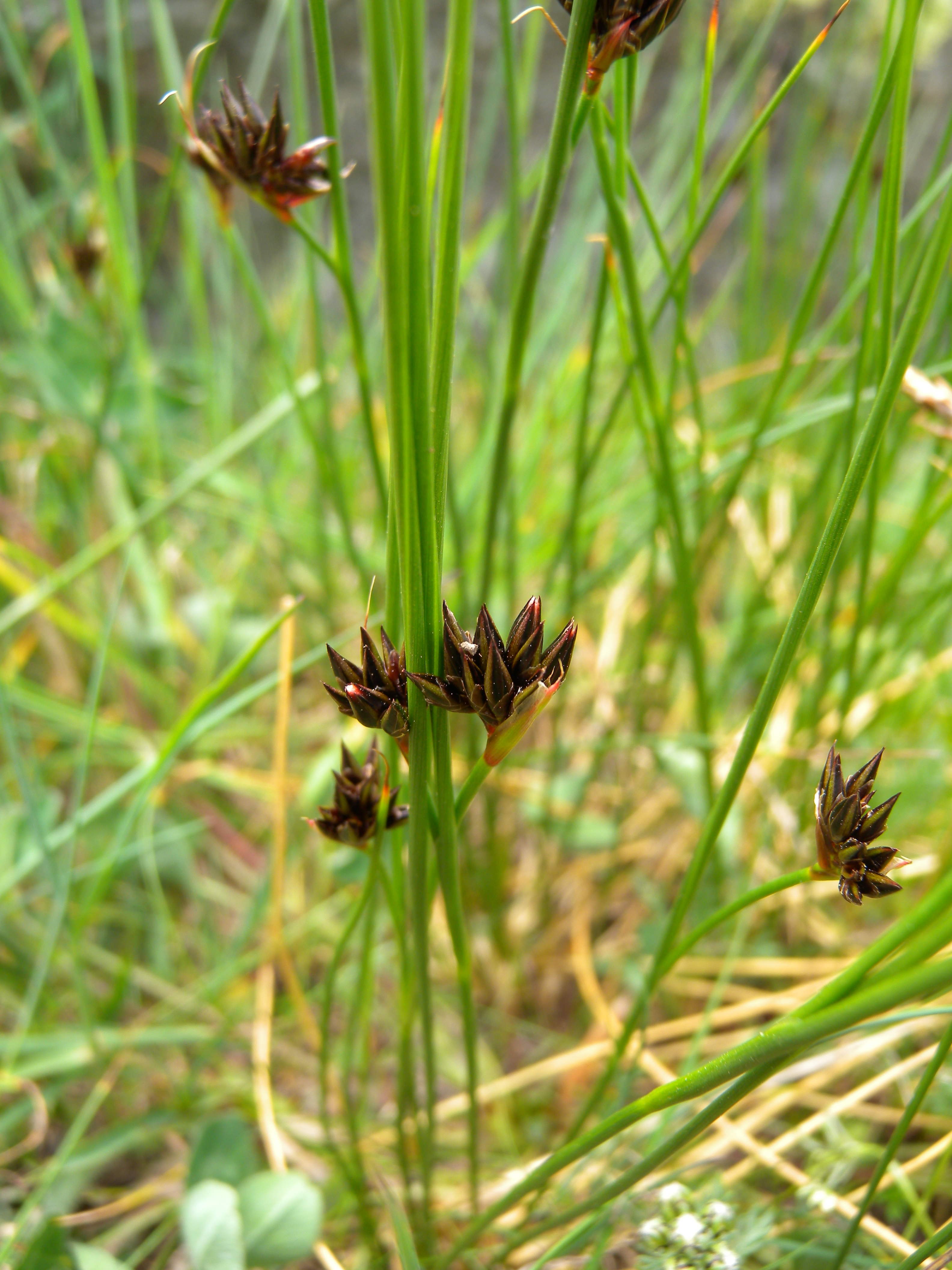 Juncus jacquinii (Juncaceae); near Blauherd above Zermatt, Canton of Valais, Switzerland